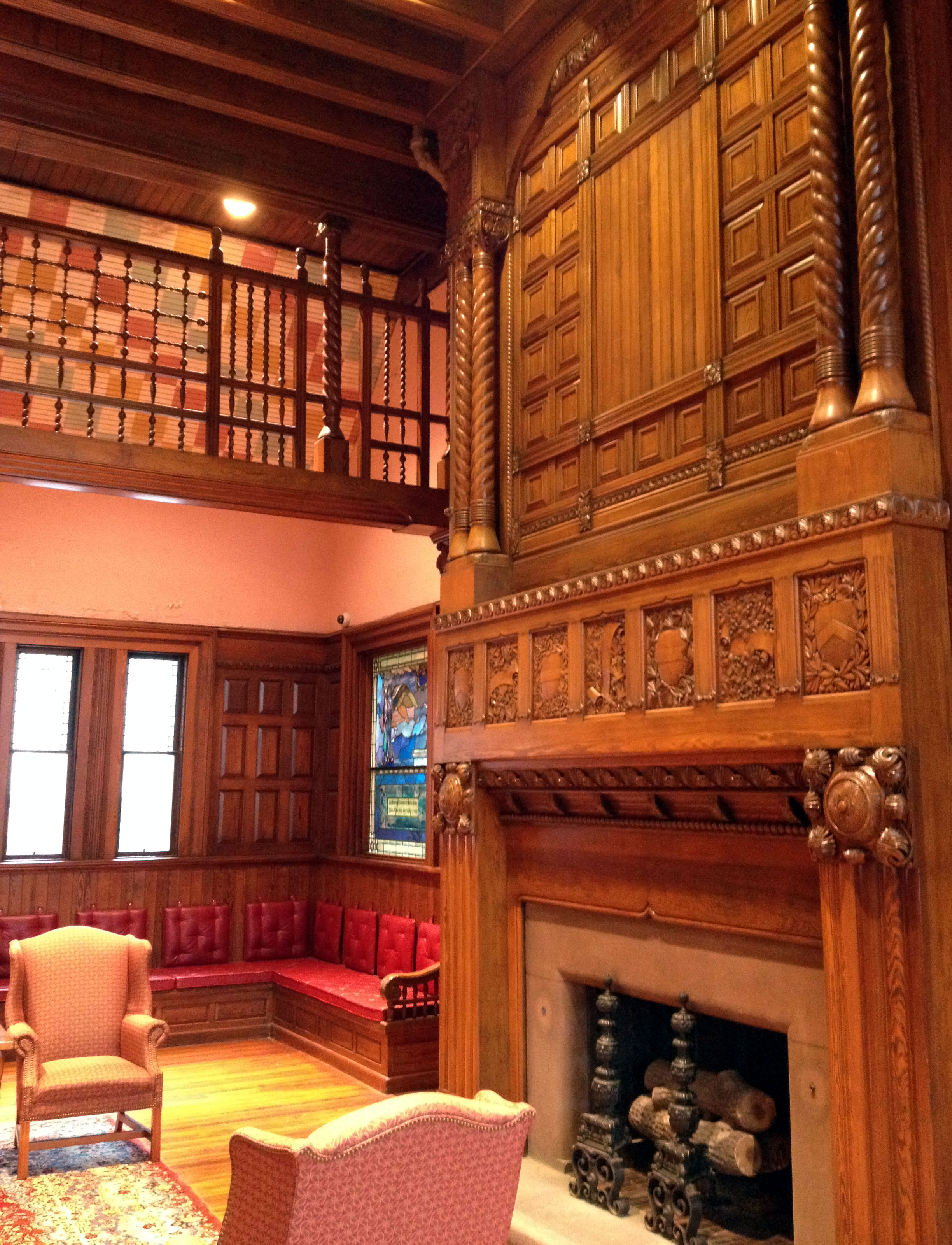 Thomas Crane Public Library - Fireplace in Richardson Room